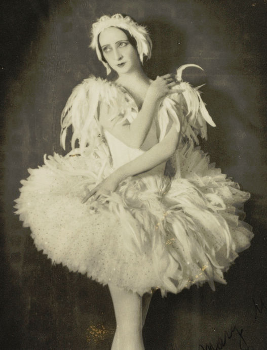 For the sad life story of Olga Spessivtzeva (billed Spessiva for phonic simplicity or maybe to make the name more the same length as "Pavlova" who had toured six years before on her Australian tour); and the part Australia played in her life, see the Valerie Lawson article: The life of Olga Spessivtseva: spies, delusions and the comfort of dolls ( .au/research/the-life-of-olga-spessivtseva-... ) Note on the name: Spessivtzeva has signed the photogrpah "Olga Spessiva" Format: Photograph Find more detailed information about this photograph: .au/item/itemDetailPaged.aspx?itemID=442191 Search for more great images in the State Library's collections: .au/search/SimpleSearch.aspx From the collection of the State Library of New South Wales